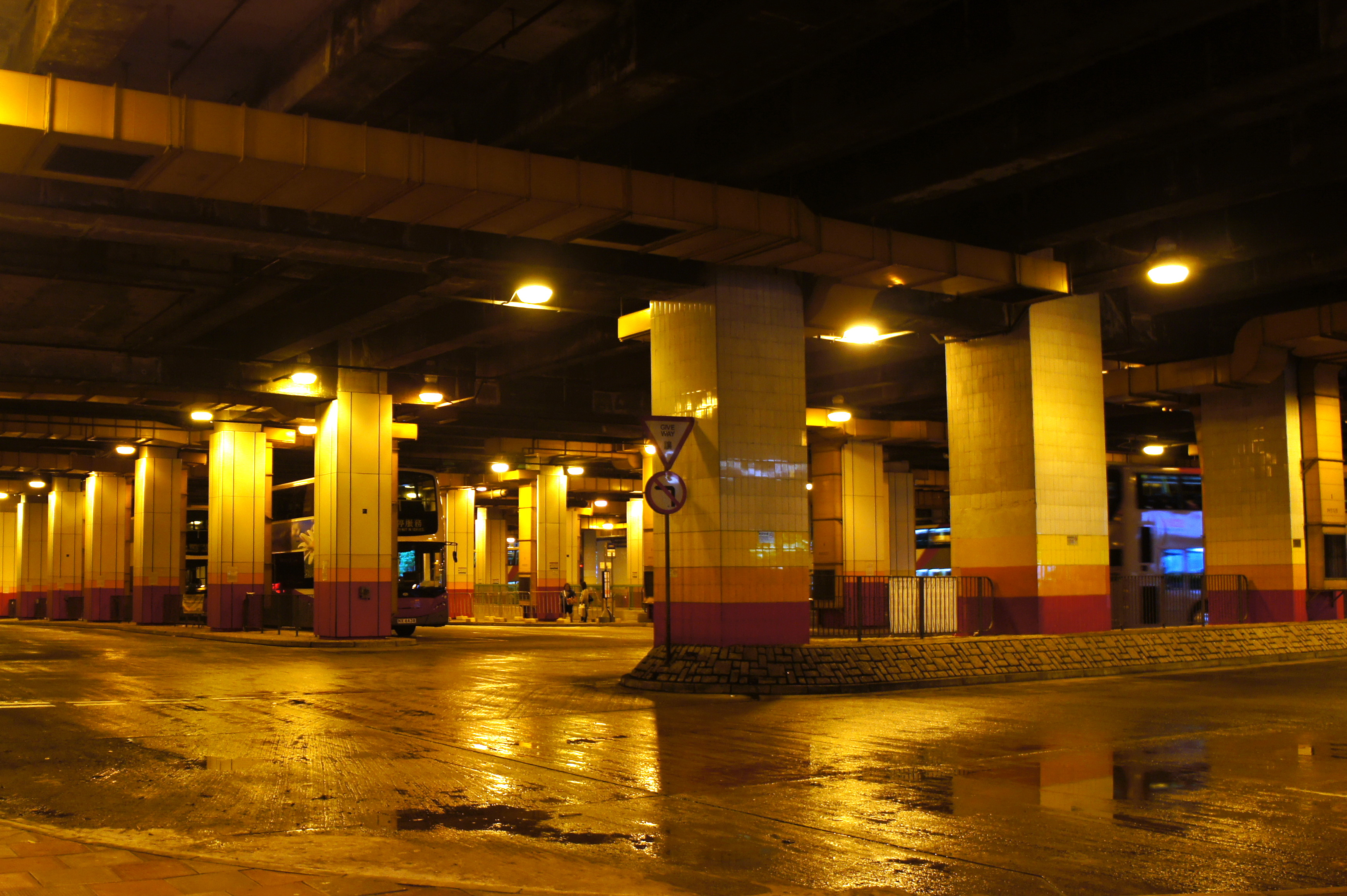 Tai Po Market Station Public Transport Interchange, New Territories, Hong Kong.